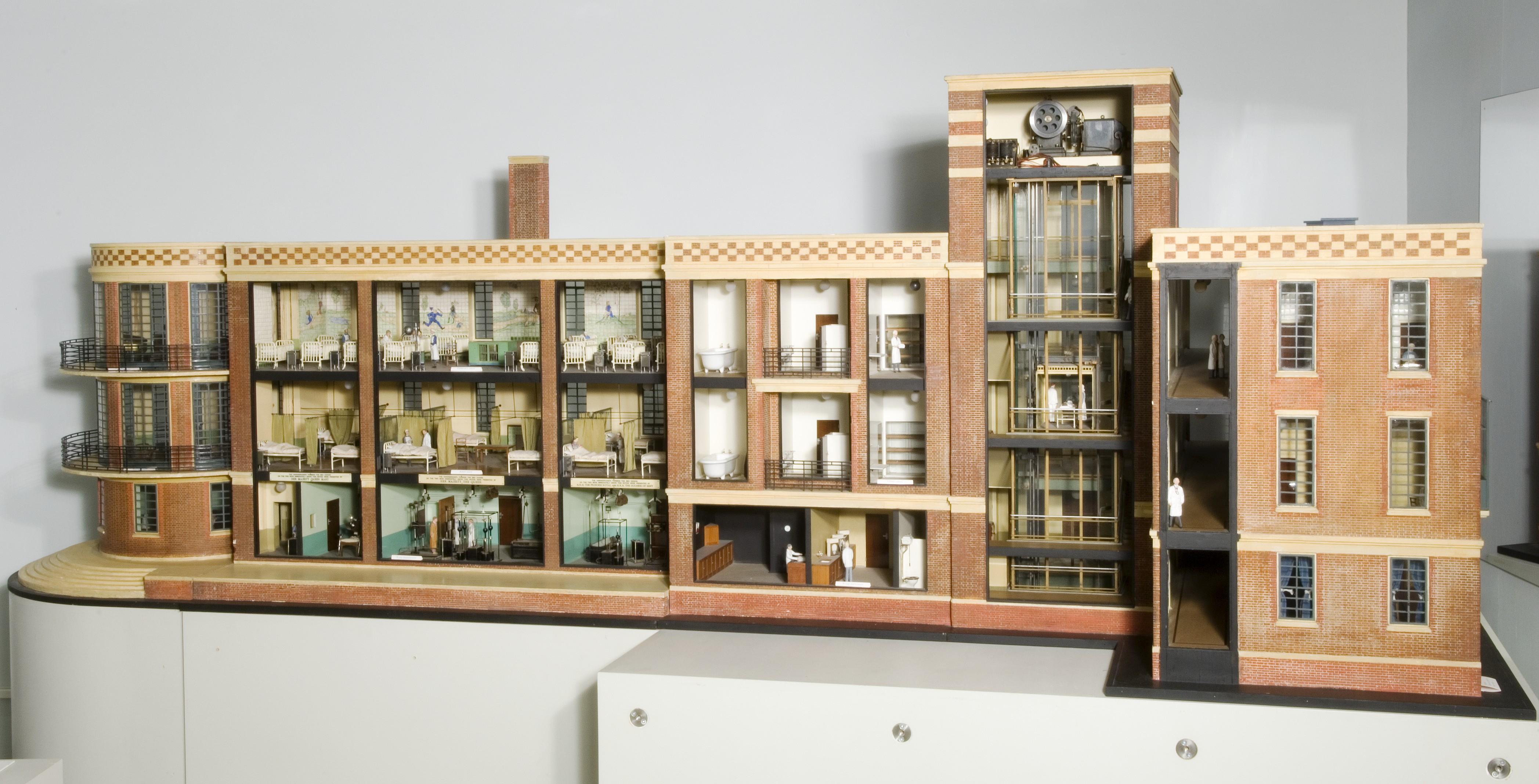 Model of a hospital promoting the King Edward's Hospital Fund for London, England, 1932 Why build a miniature hospital? Was it really a royal doll’s house? Queen Mary, wife of King George V, liked it so much she gave her lace handkerchiefs as tiny bedspreads. But it was not made for her. It was built as a scale model of a 1930s hospital, with everything sixteen times smaller than real life. So what was it used for? It was an eye-catching way of showing the work of modern hospitals to members of the public. It was complete in as many details as possible, showing wards, operating theatres, X-ray equipment and even an electric lift, which worked if you pressed a button. The Prince of Wales launched the display of the model in January 1933, and it toured the nation, being seen by hundreds of thousands of people. It was made by the King Edward’s Fund for London, a charity that raised money for voluntary hospitals in the city. They hoped that seeing the model would help the public understand the importance of modern hospitals, and develop a sense of responsibility for maintaining them. Public support was essential for the survival of voluntary hospitals during the economic hardship of the interwar years. How much did it help? The King’s Fund miniature hospital, lectures, films and leaflets succeeded in raising large sums of money. In 1933, the Fund’s grants met a tenth of annual costs of maintaining London’s hospitals. The model’s story says much about medicine in 1930s Britain. But the lace bedspreads seem to have vanished. Perhaps the Queen needed them back? Wellcome Images